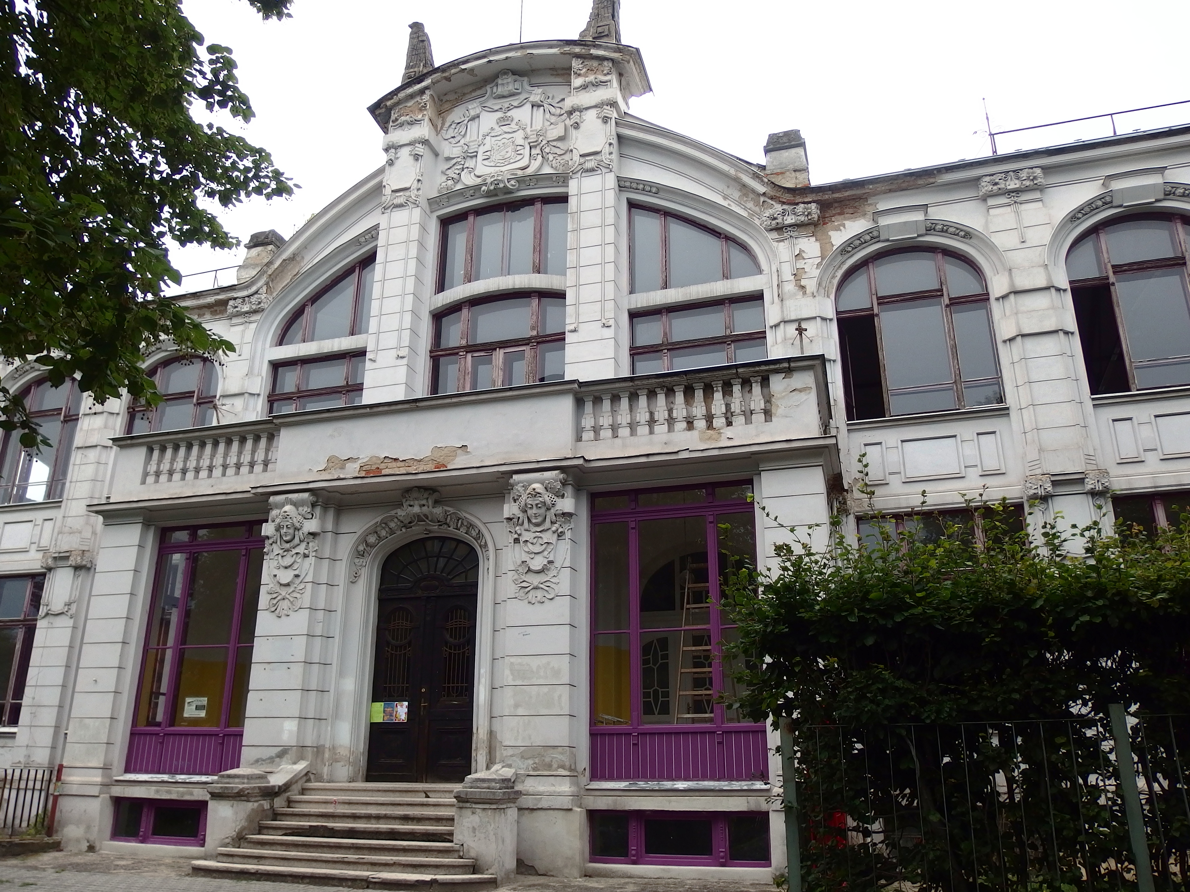 Krnov, Bruntál District, Czech Republic.